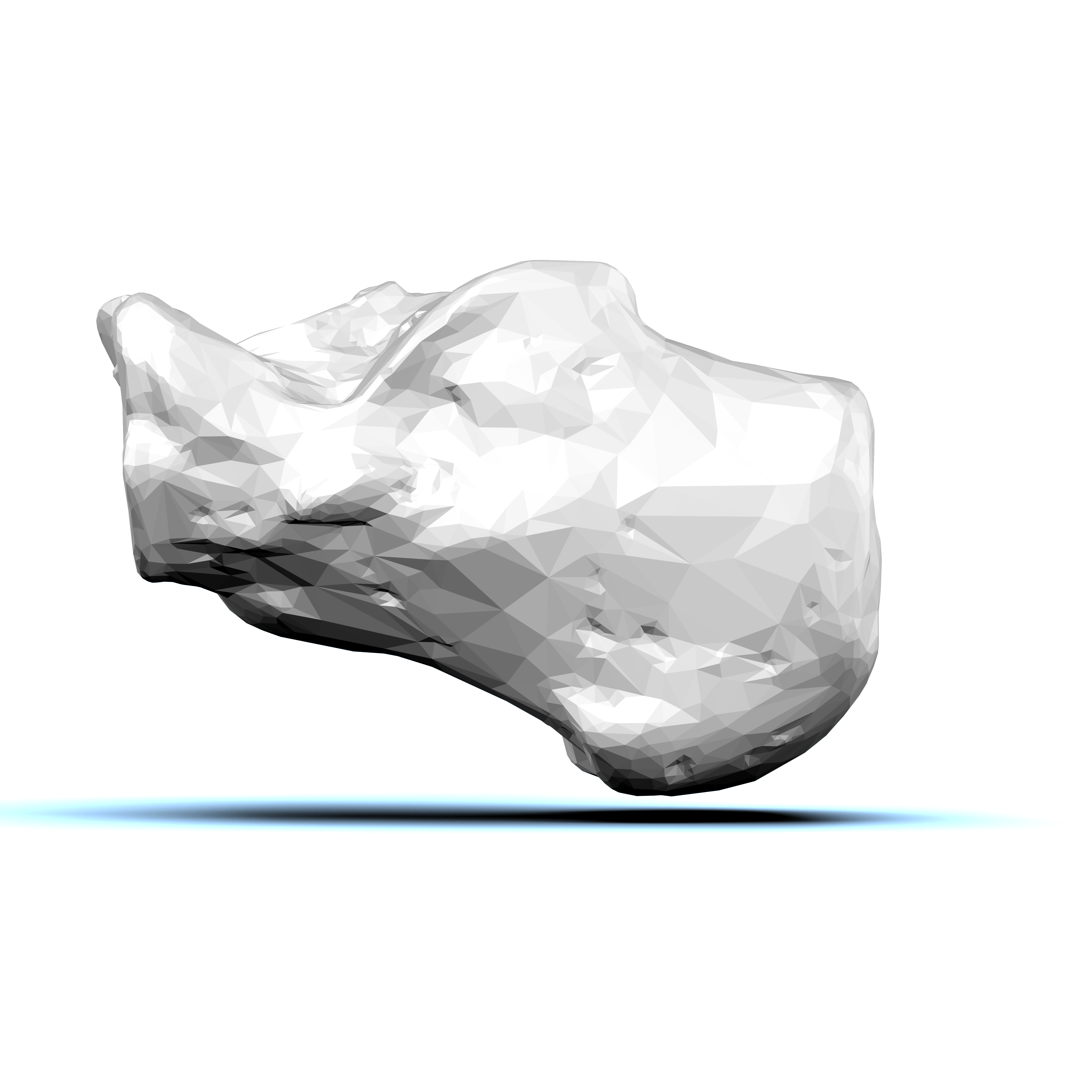 Calcaneus